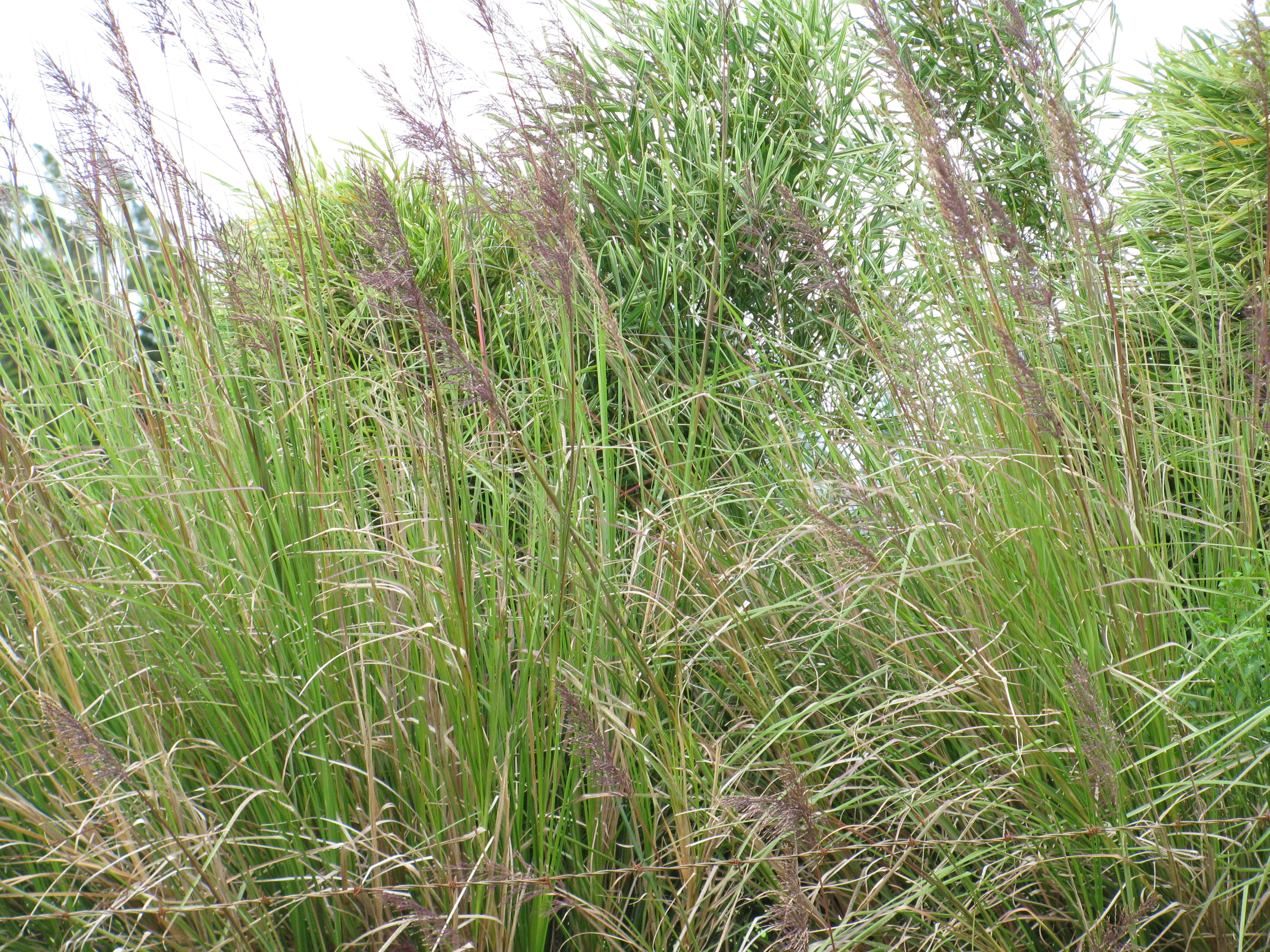 Chrysopogon zizanioides-seeding habit-Kokomo Haiku